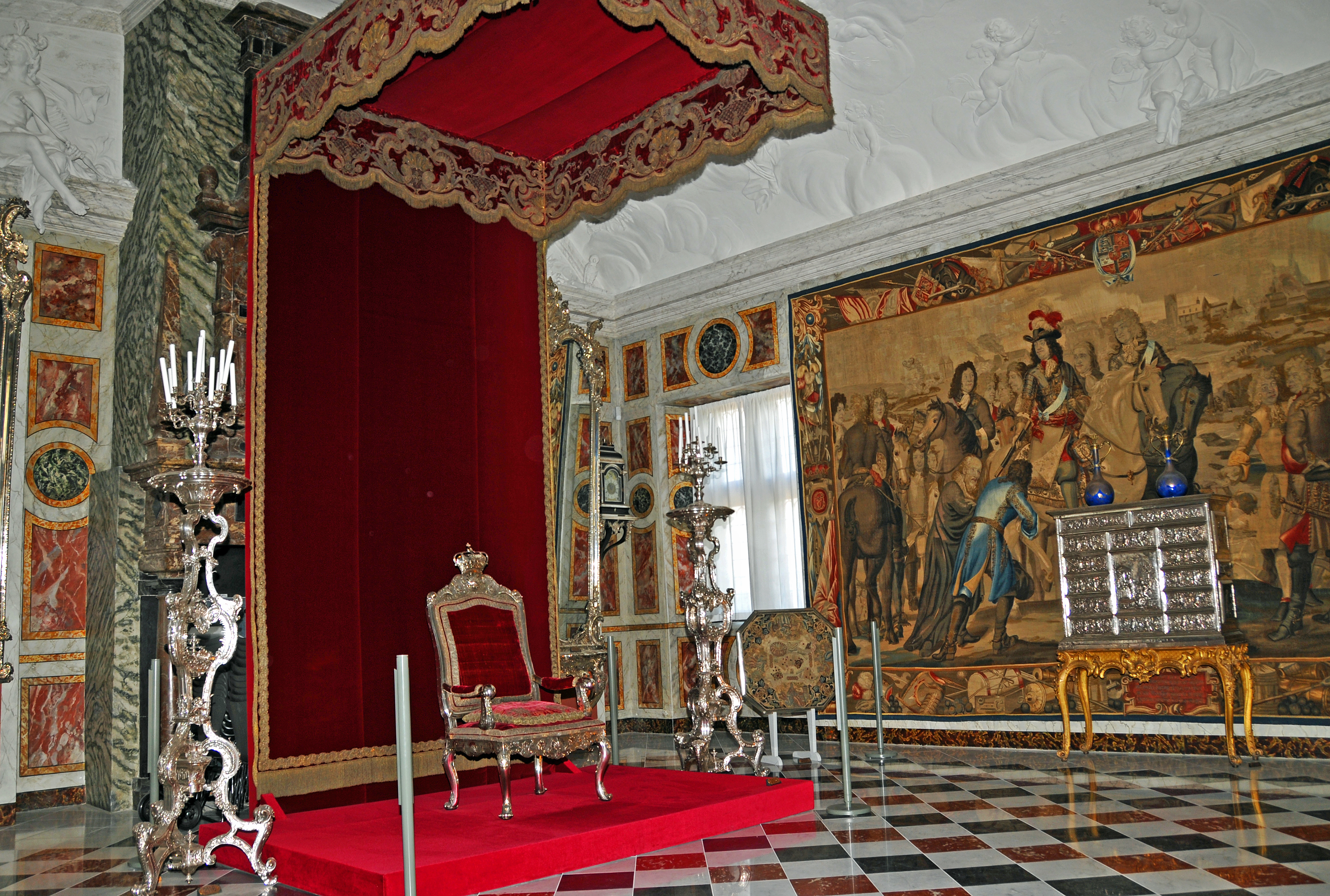 PLEASE, no multi invitations in your comments. Thanks. I AM POSTING MANY DO NOT FEEL YOU HAVE TO COMMENT ON ALL - JUST ENJOY. Among the main attractions of Rosenborg are the coronation chair of the absolutist kings and the throne of the queens with the three silver lions standing in front.